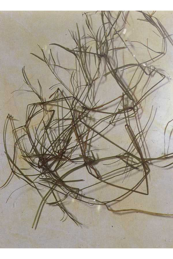 Stuckenia pectinata